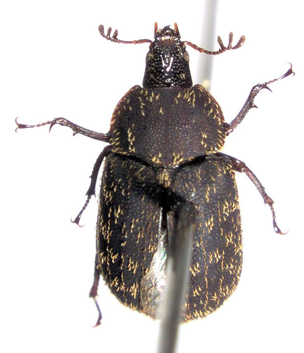 adult female Mitophyllus dispar